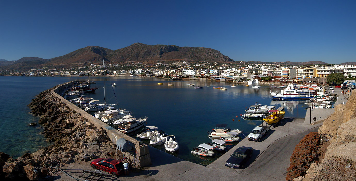 Panorama of the Port of Hersonisos